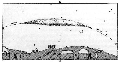 Drawing of passage of "auroral beam" of November 17, 1882